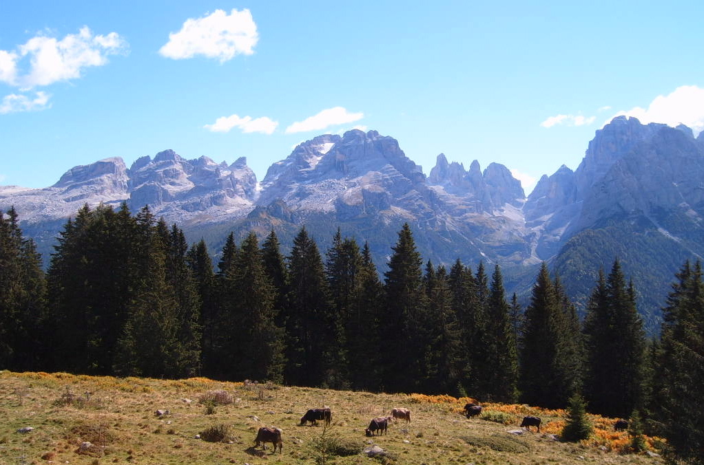 Dolomiti di Brenta, seen from the region south of Madonna di Campiglio (Italy). Mountains from left to right::Cima Groste 2898m, Bocca dei Camosci 2774m, Campanile dei Camosci 2914m, after Bocchetta Alta Cima Falkner 2988 (in front Castello di Vallesinnella 2782). Campanile di Vallesinnella 2940m (in front Castelletto Superiore 2664m), Pt. 2894m, Cima Sella 2917m. Pass Bocchetta del Tuckett 2649m . Cima Brenta (3151m) hidden behind Cima occidentale di Brenta 3124m. left in front Campanili di Krene with Punta Massari 2899m. Cima Mandron 3099m and Punte di Campiglio 2951m. in front Cima Fridolin, 2221m. Torre di Brenta 3014m, Cima dei Sfulmini 2910m, Campanile alto 2937m and Cima Brenta 2960m. After pass Pass Bocche di Brenta Cima Brenta Bassa 2809m, Cima Margherita 2845. Crozzon di Brenta 3125m, in front Cima Fracinglo I 2664m. very right Cima Tosa 3173m